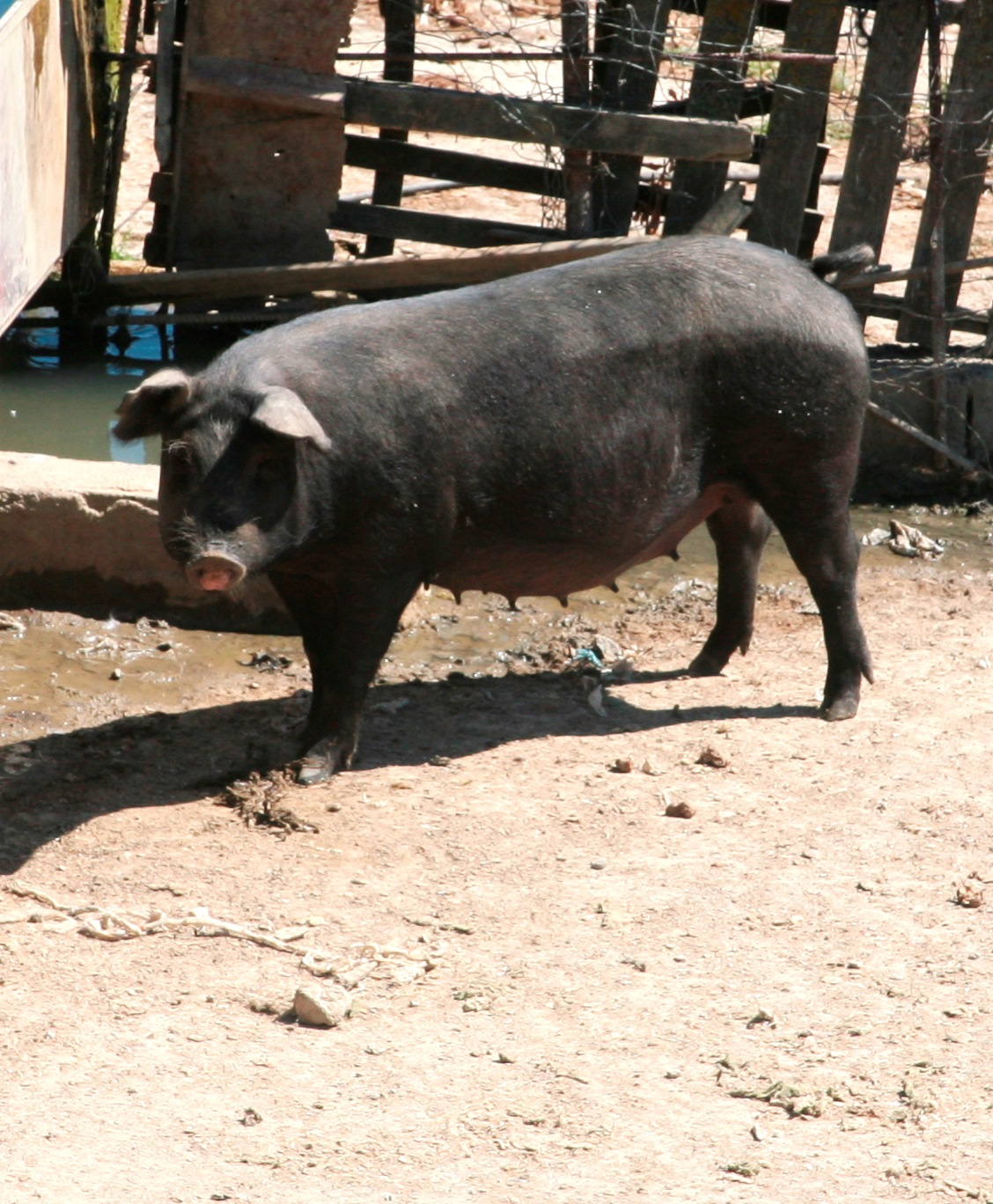 Nero siciliano is a breed of domestic pig from the Mediterranean island of Sicily, it may also be called Nero delle Madonie or Nero dell’Etna; near Capizzi, Messina